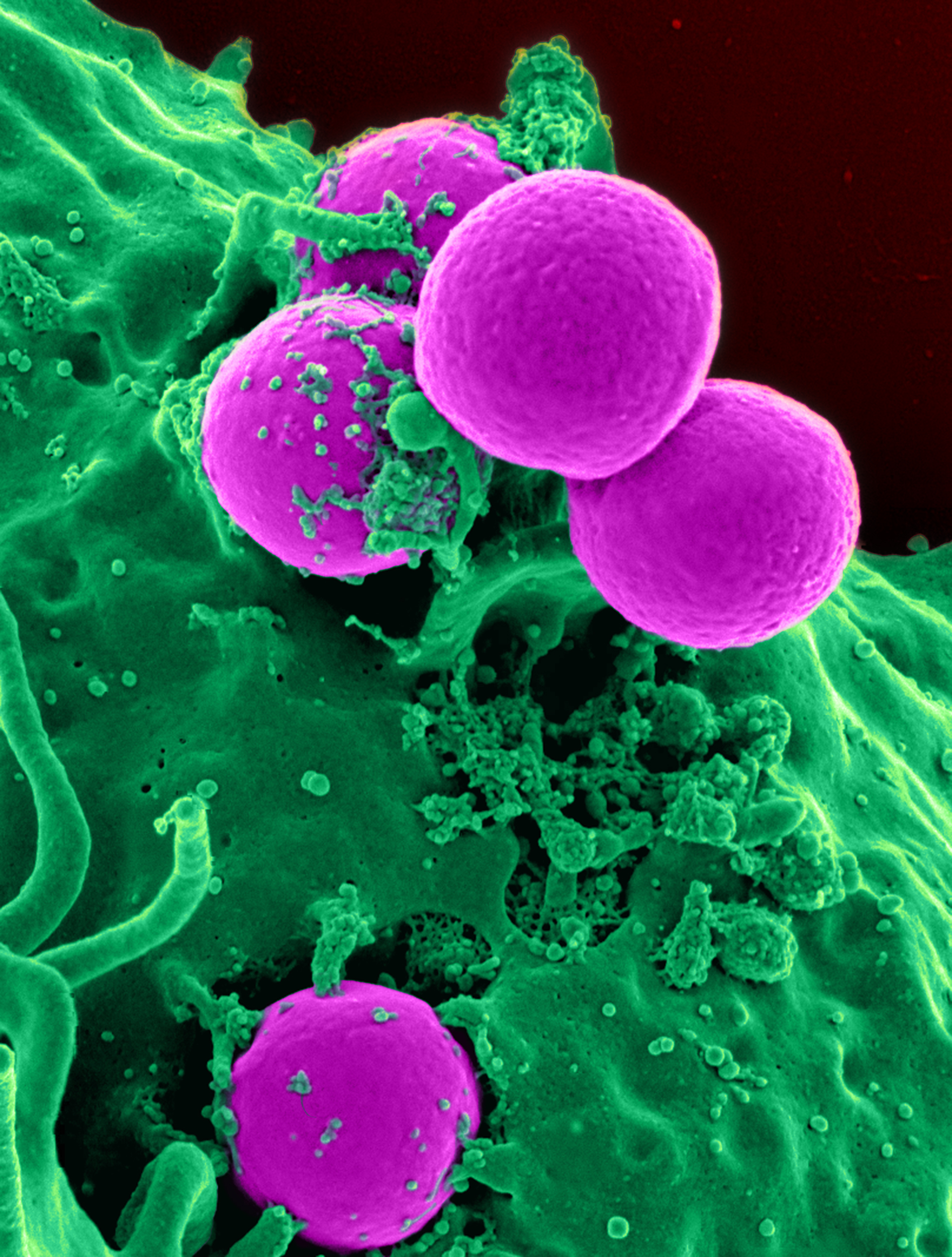 Scanning electron micrograph of a human neutrophil ingesting MRSA National Institute of Allergy and Infectious Diseases (NIAID)